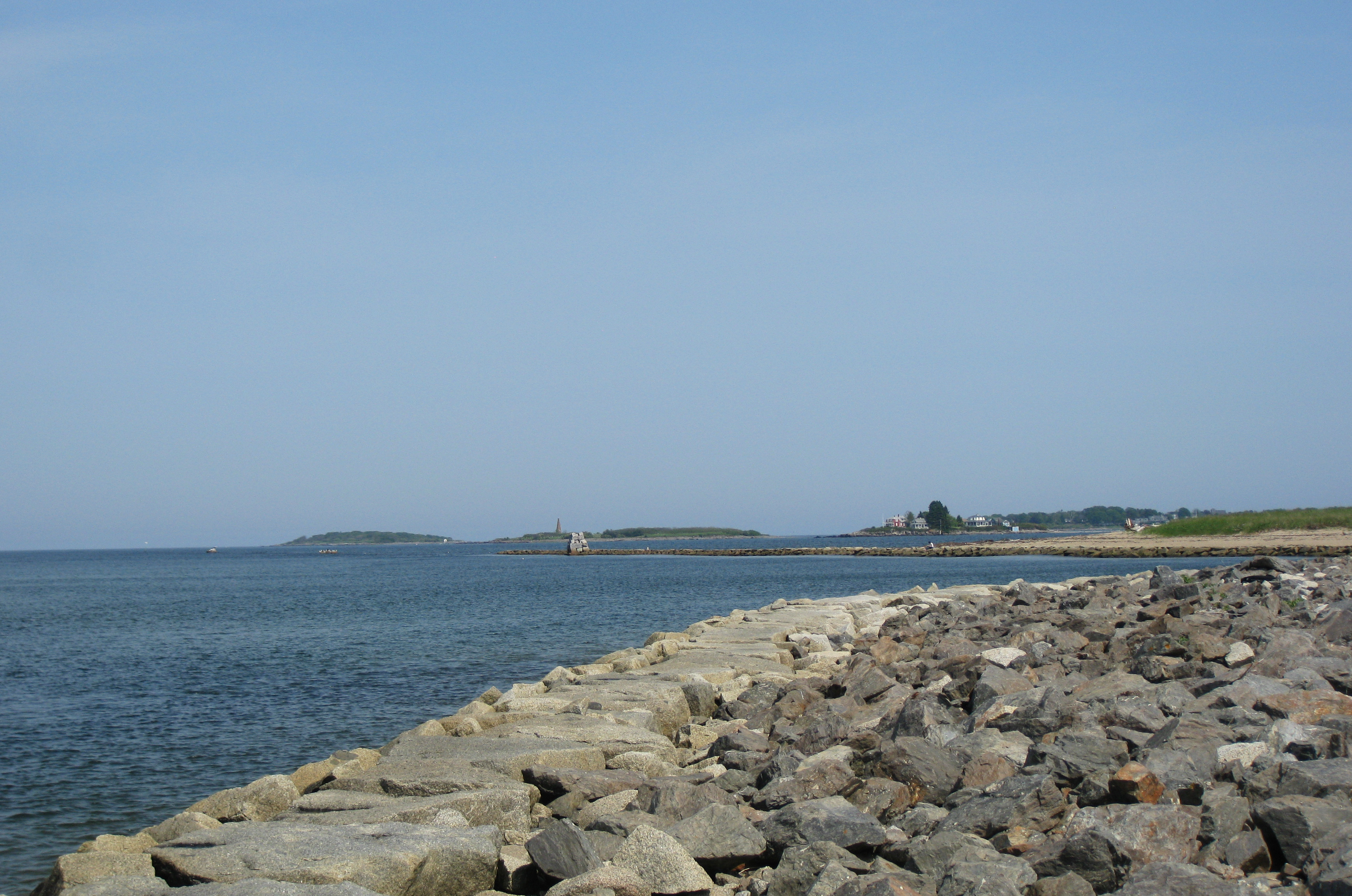 Walkway on large stone slabs at the edge of a breakwater at the ocean edge south of the Saco River mouth, with Hills Beach in the background. Biddeford, Maine.